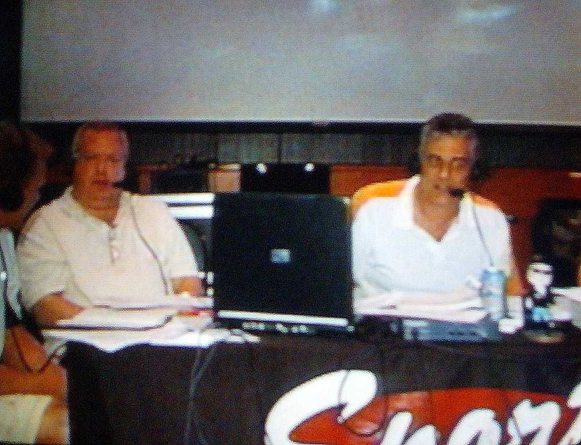 self made, taken from radiothon broadcast